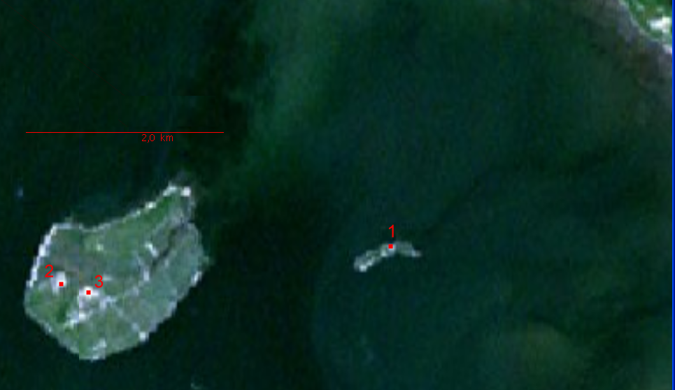 Halligen Gröde and Habel, with settlements numbered. Satellite image.